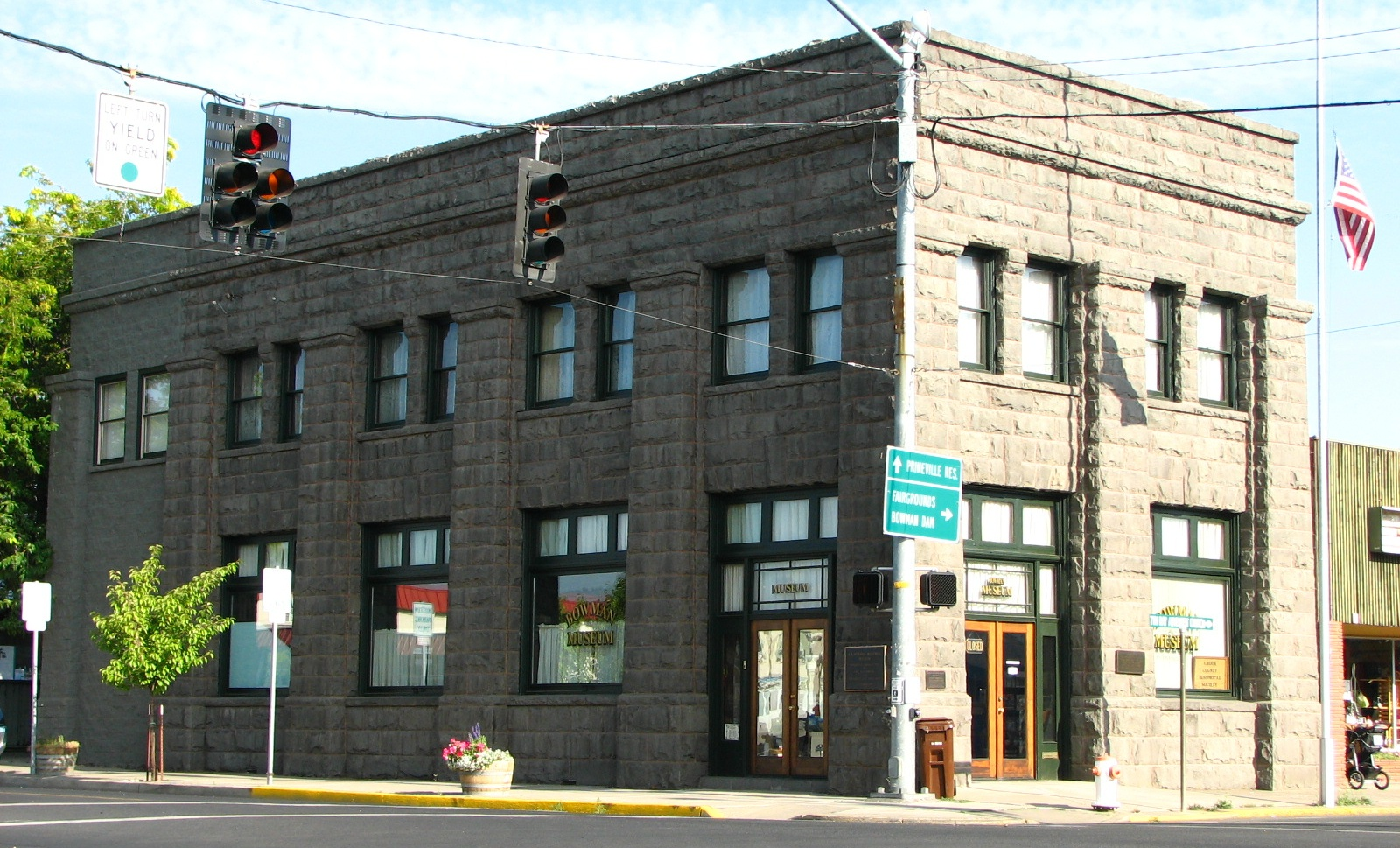 The historic Crook County Bank Building, in Prineville, Oregon, United States. As of the date of the photo, the building was in use as the A. R. Bowman Memorial Museum of the Crook County Historical Society.